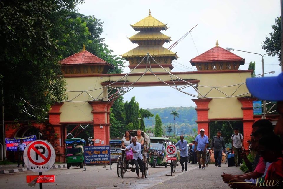 Border of Nepal - India at eastern point of Nepal's Kakarbhitta at Jhapa District, SO.